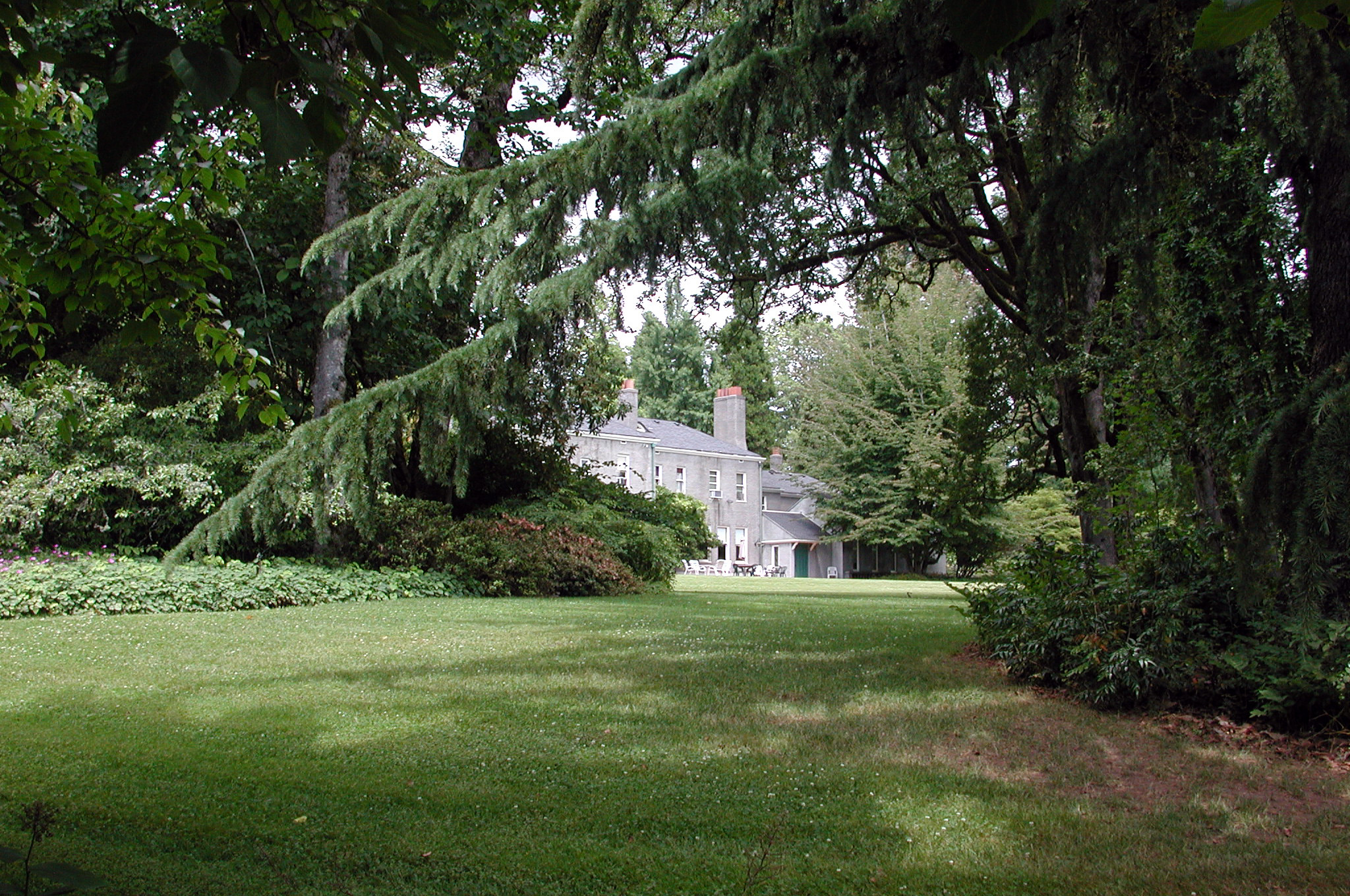 View of the manor house at Elk Rock Gardens of the Bishop's Close in Dunthorpe, Oregon, near Portland. View is to the northwest across the North Lawn.